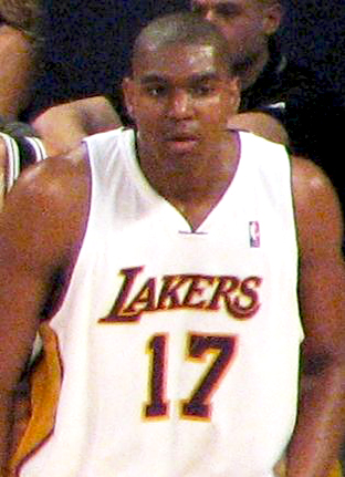 Photo of Los Angeles Lakers Andrew Bynum.